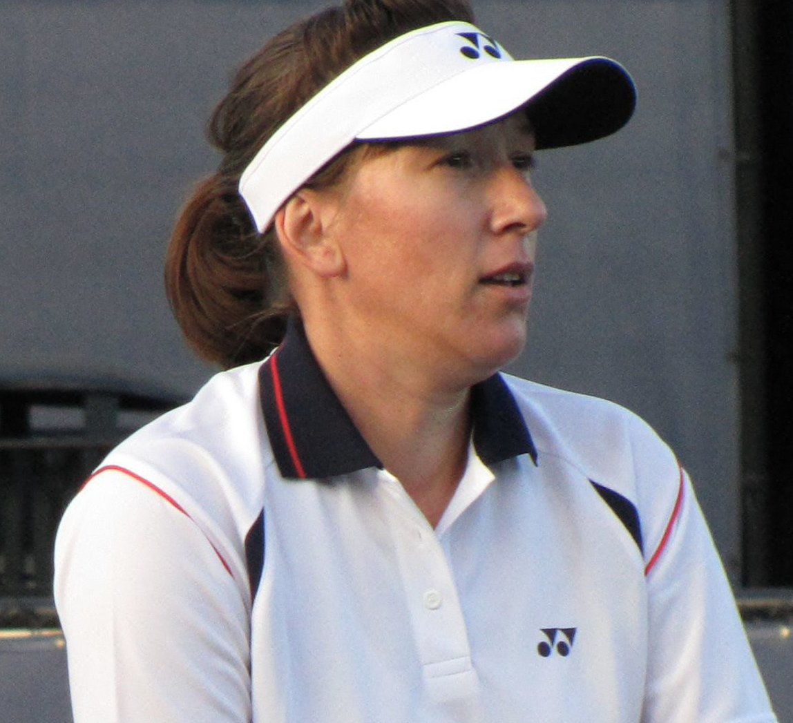 Natasha Zvereva, US Open Champions Invitational – 2010